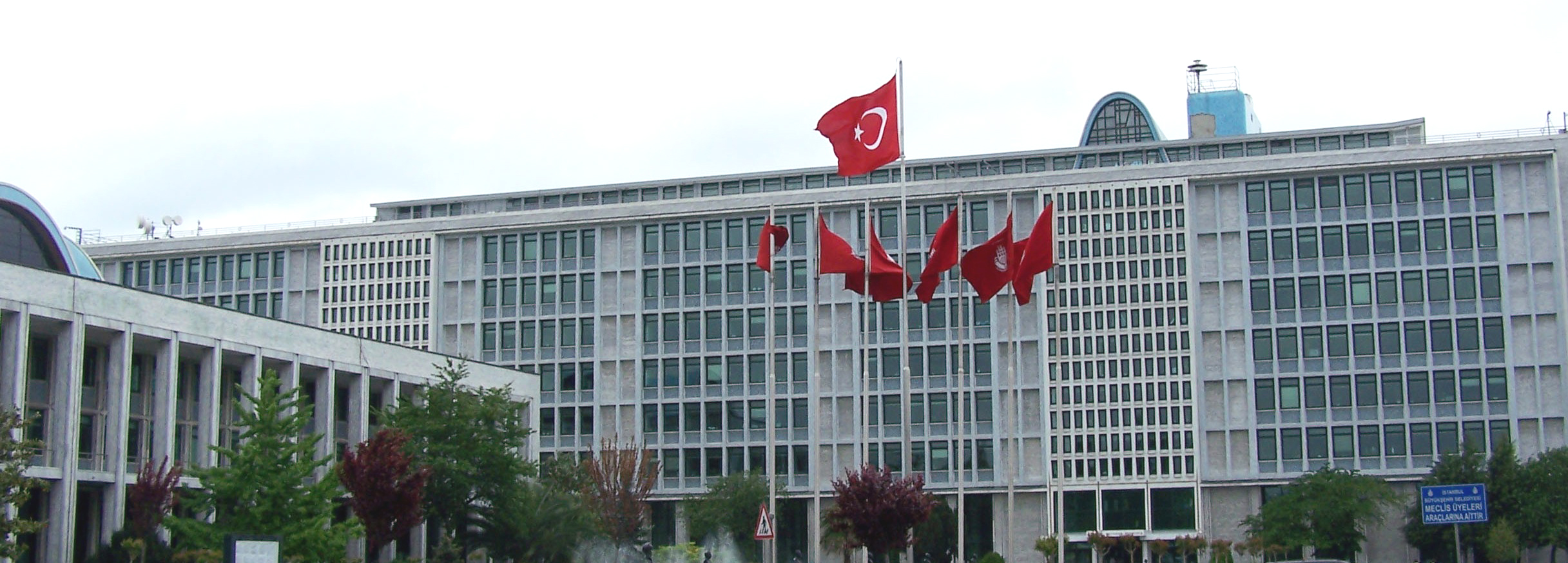 Istanbul Metropolitan Municipality City HallTürkçe: İstanbul Büyükşehir Belediyesi Belediye Sarayı